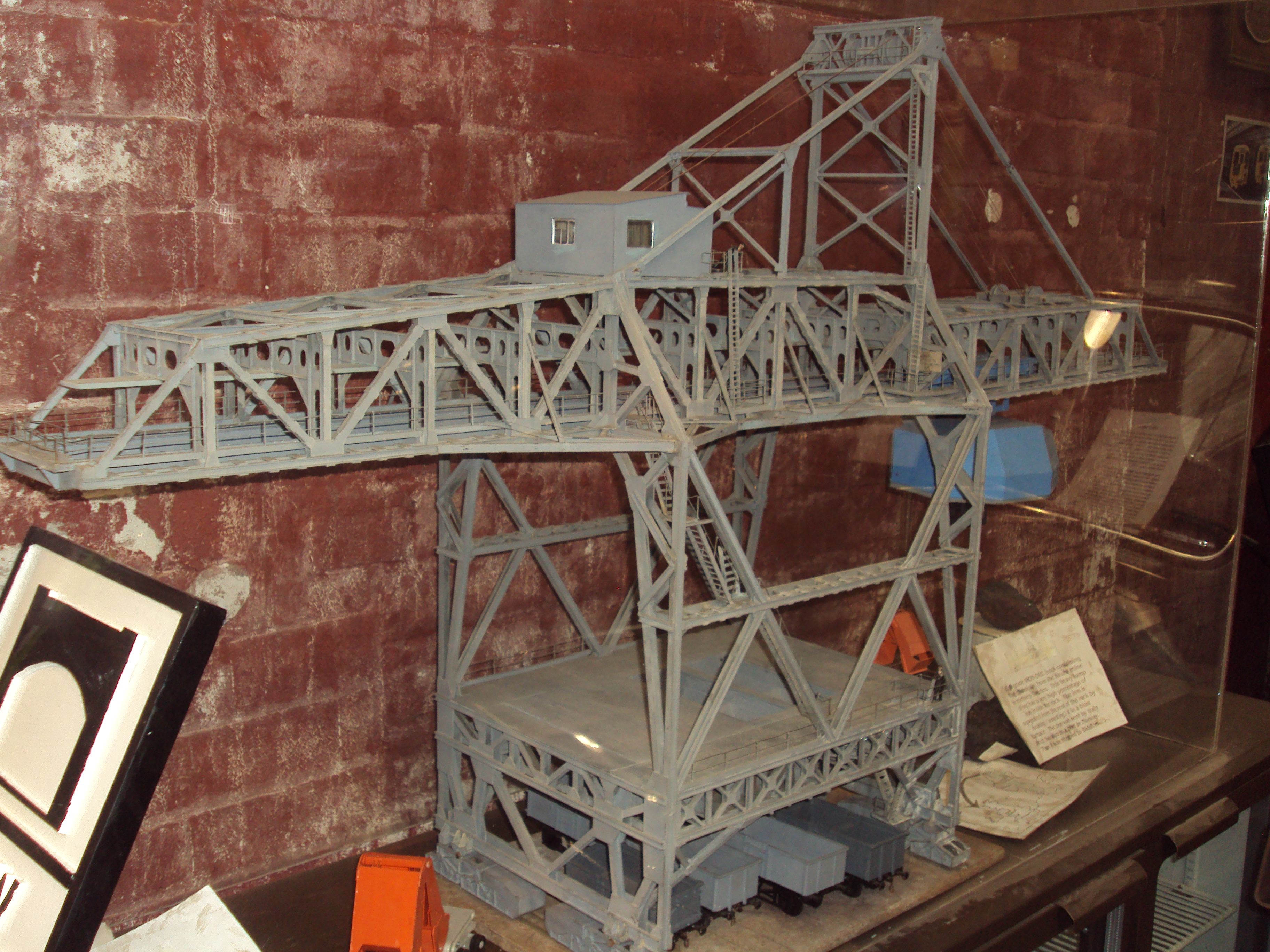 Model crane at the Wirral Transport Museum, Birkenhead, Merseyside, England.